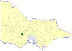 Location of the former Shire of Ballarat within Victoria.